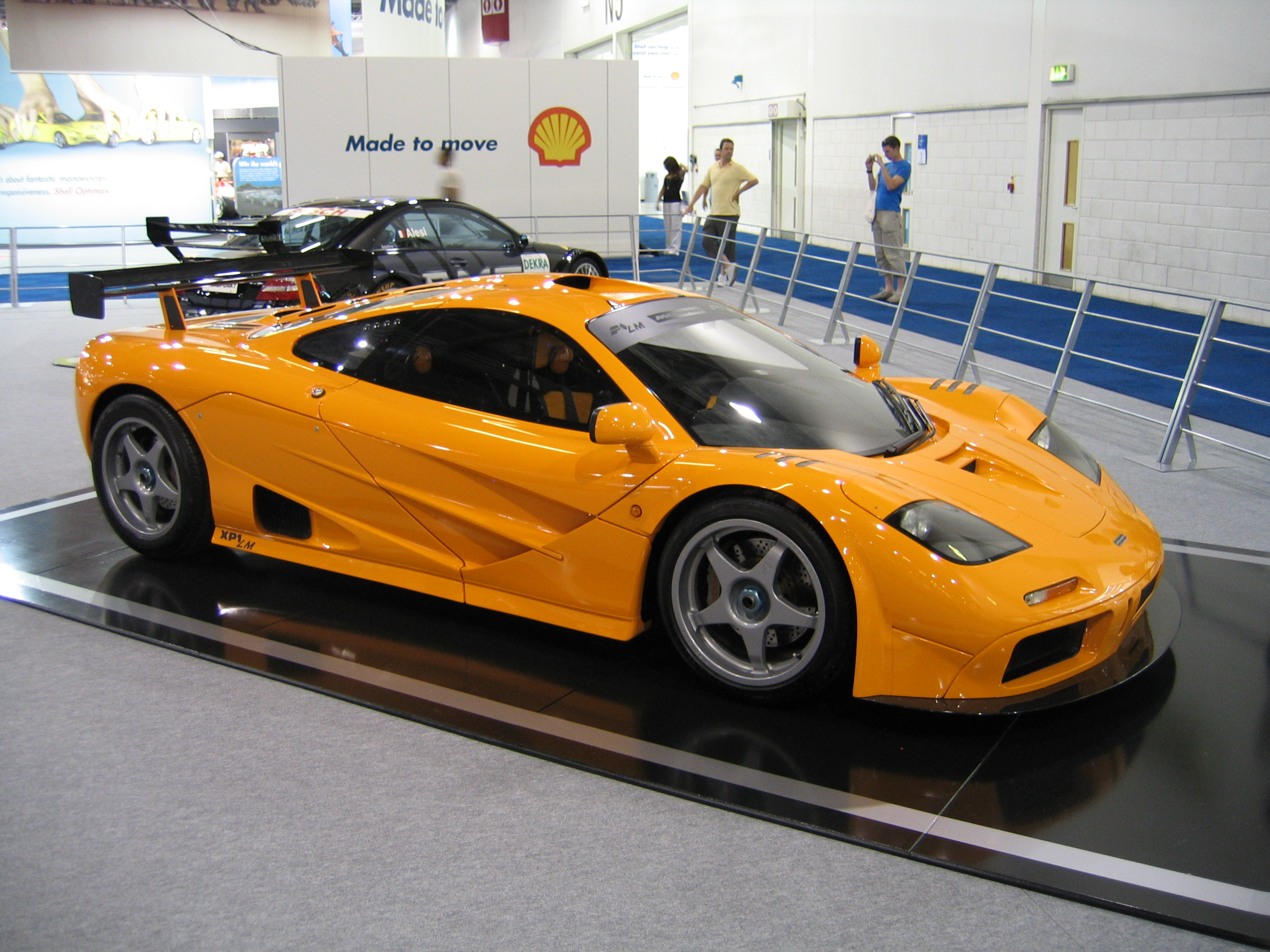 The only ever McLaren F1 XP-LM photographed at the 2006 British International Motorshow